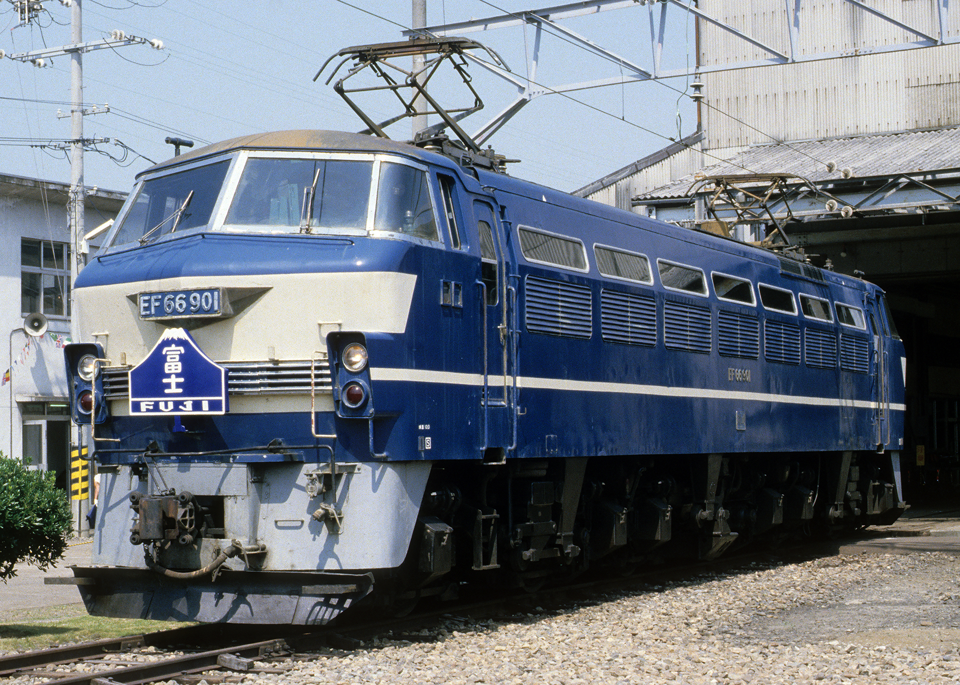 JNR Class EF66 electric locomotive EF66 901 at an open day events at Inazawa Depot